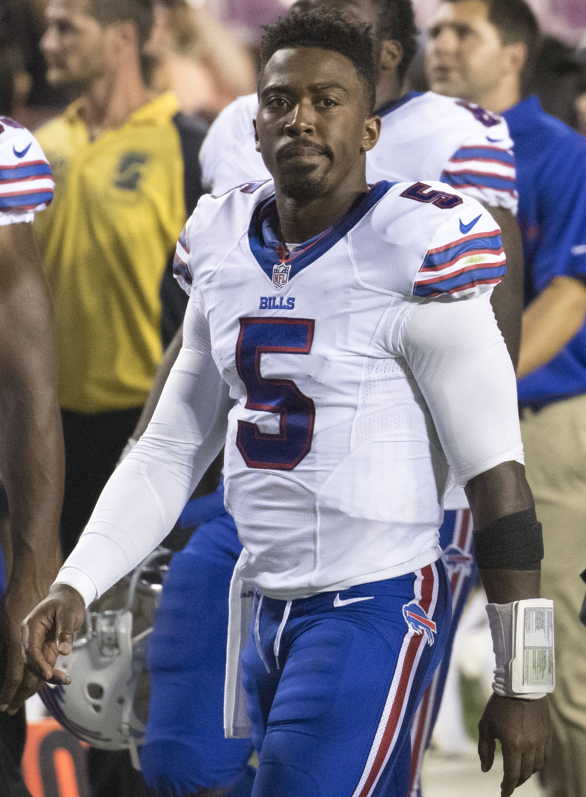 Bills at Redskins 8/26/16